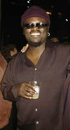 American singer/producer/songwriter/musician Tommy Sims, backstage after Yamaha's tribute concert to former Doobie Brother and Steely Dan alumni Michael McDonald in Los Angeles (February 4, 2000).